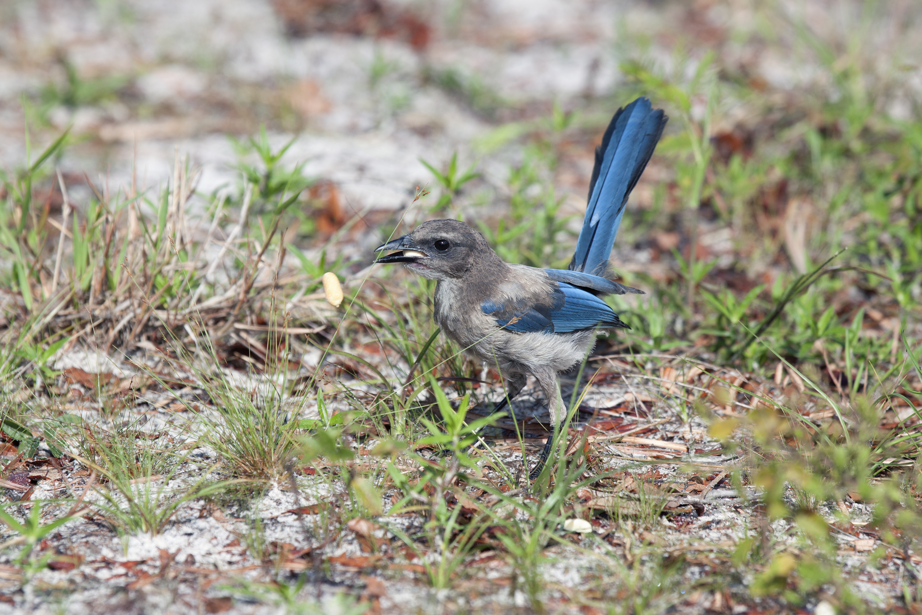 A Florida scrub jay forages on the ground in an area called Wilson's Corner in the Merritt Island National Wildlife Refuge (MINWR) near NASA's Kennedy Space Center in Florida. The bird is one of more than 330 native and migratory bird species, 25 mammals, 117 fishes and 65 amphibians and reptiles that call Kennedy and the wildlife refuge home.